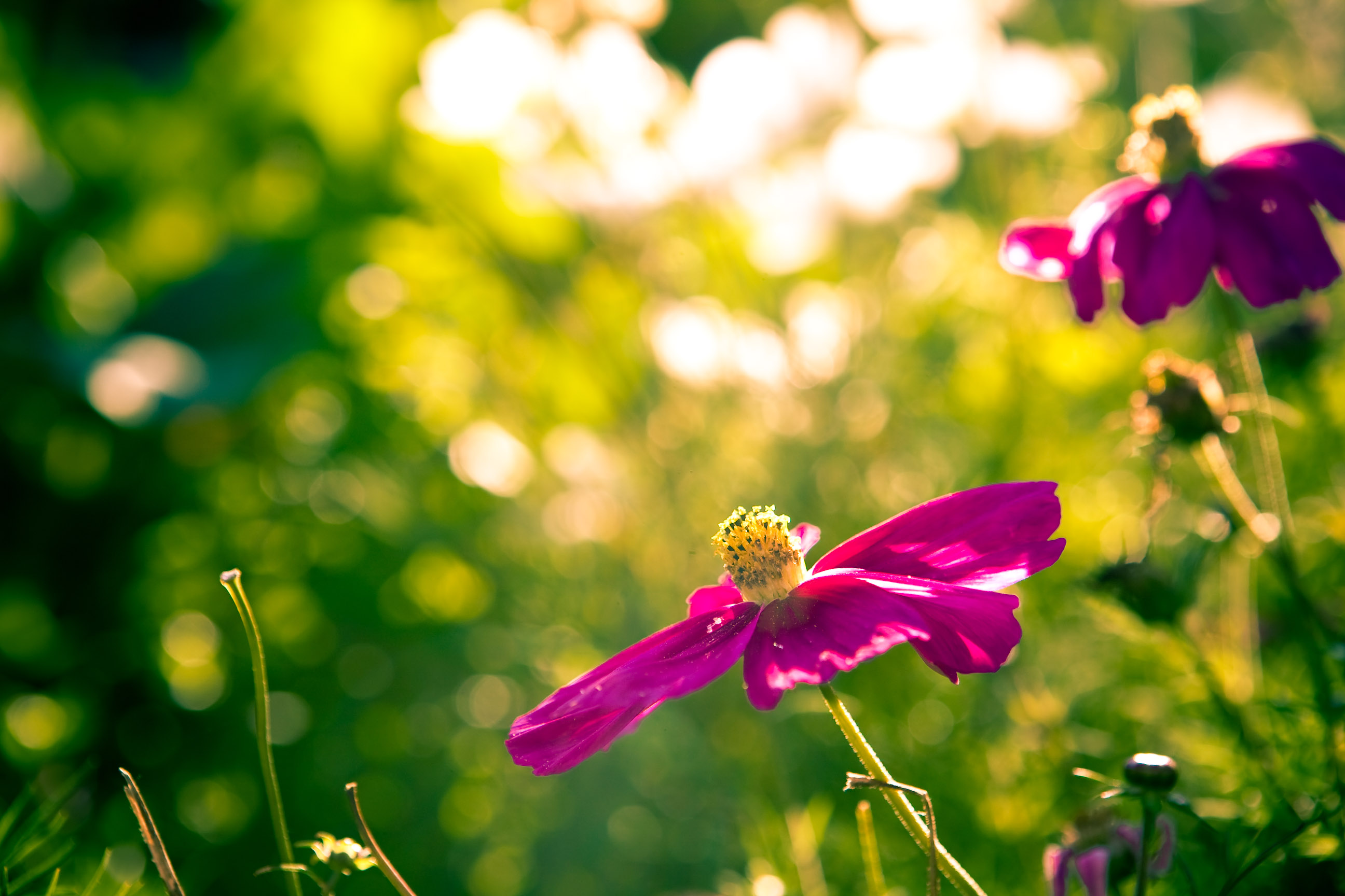 Celebration of bokeh.